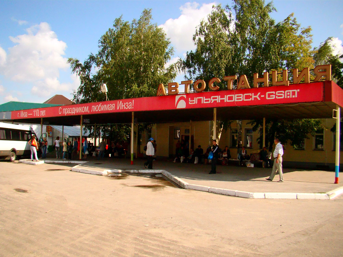 Inza bus station. Russia, Ulyanovsk Region.